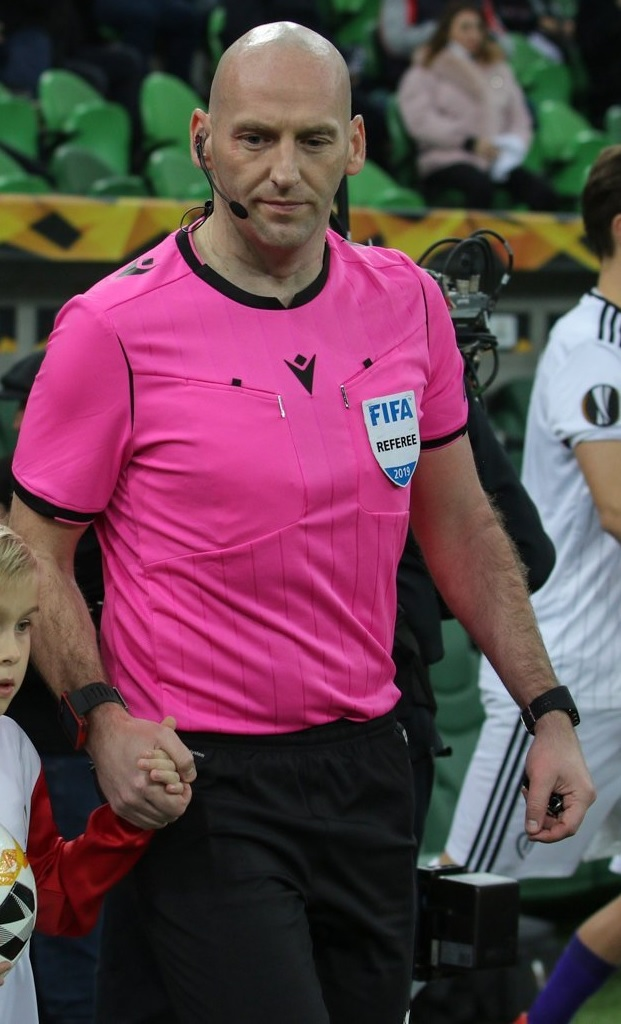 Bobby Madden before the Europa League game between FC Krasnodar and FC Basel.